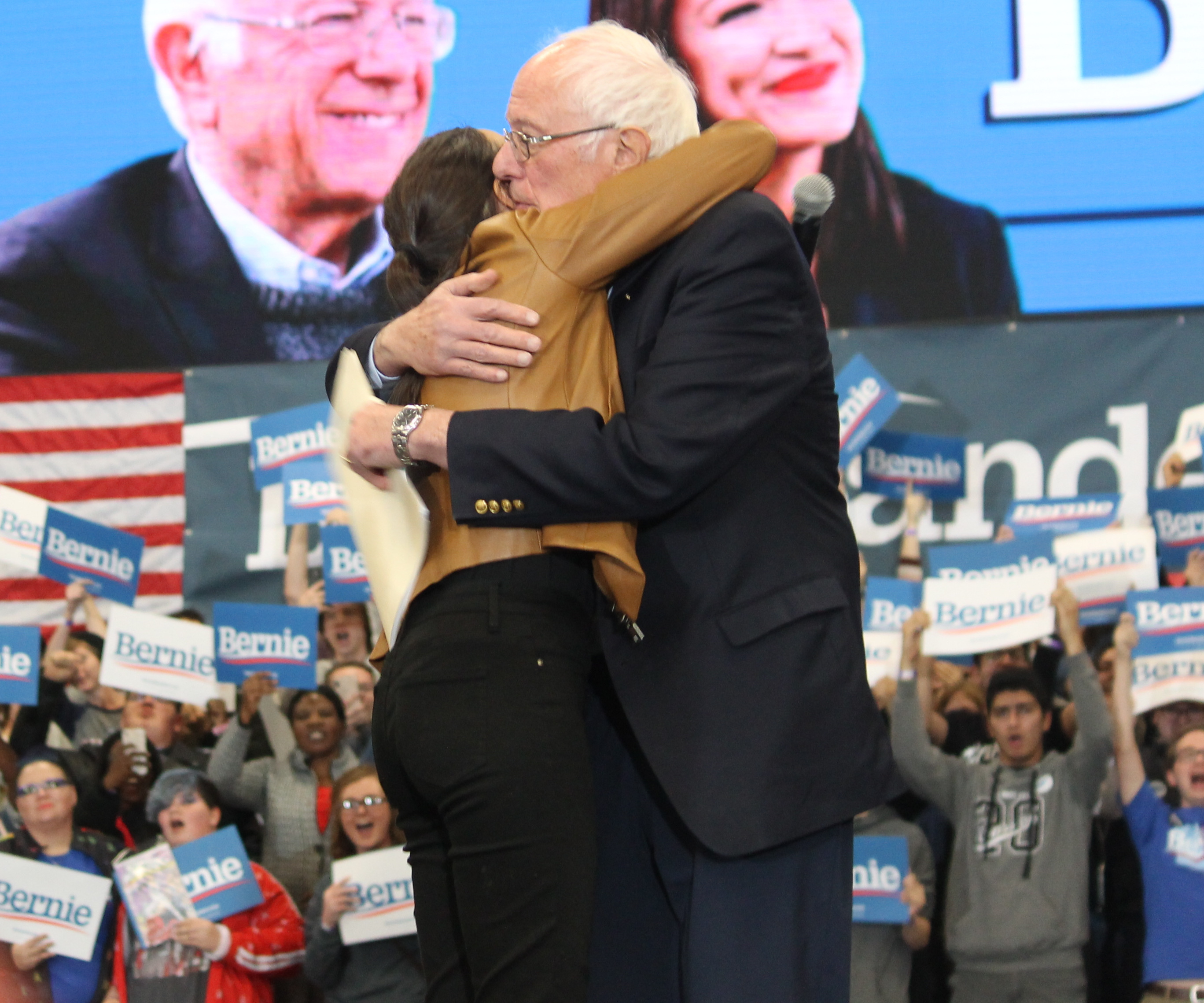 Sen. Bernie Sanders and Rep. Alexandria Ocasio-Cortez at a rally in Council Bluffs, Iowa. J. if used elsewhere.